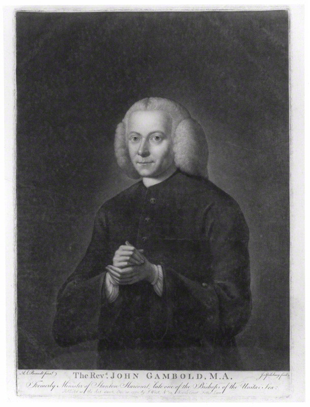 Portrait of John Gambold (1711–1771), English minister of the Moravian brethern.